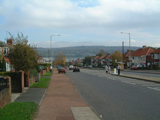 Lobley Hill. A view down the hill leading toward the A1. The sprawling mass of Gateshead is on the horizon.